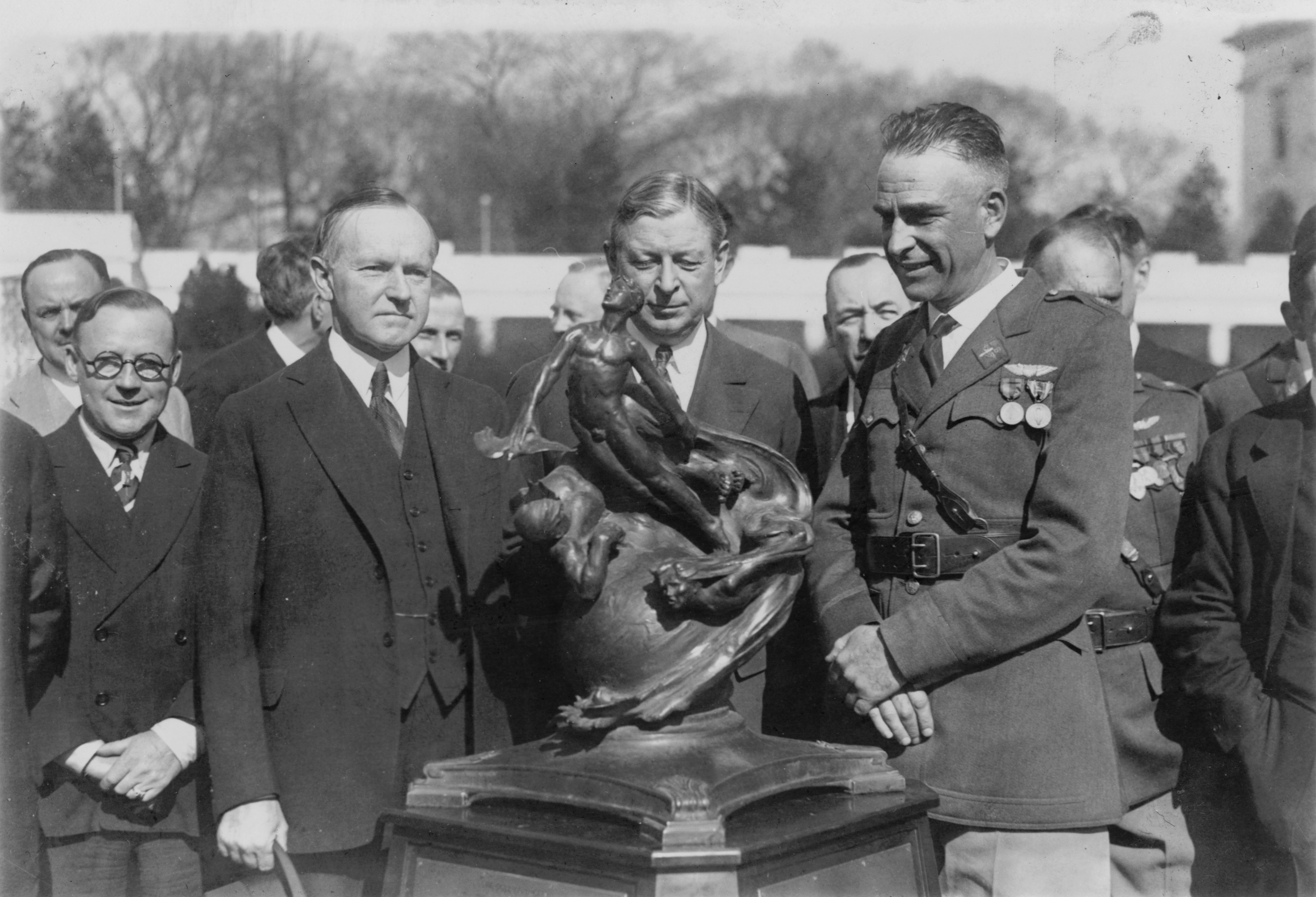 President Coolidge presents Collier trophy. President Coolidge presenting the annual trophy for greatest achievement in American aviation to Major E.L. Hoffman (right) for his role in the development of the parachute; Secretary of War Dwight Davis stands in center.